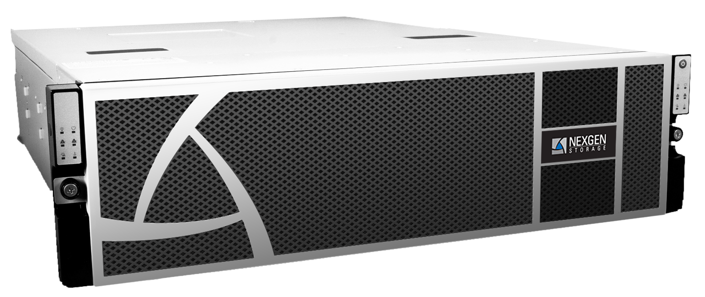 NexGen n5 Storage System